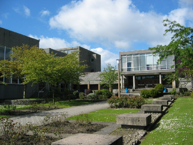 University of Aberdeen Faculty of Education. Formerly known as Northern College, Hilton. Planning permission is being applied for to turn this site into homes when the faculty vacates the site in the fairly near future.